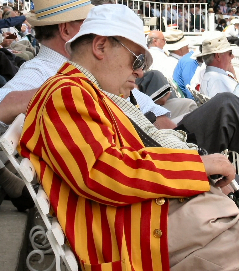 MCC member at Lord's cricket ground in distinctive colours